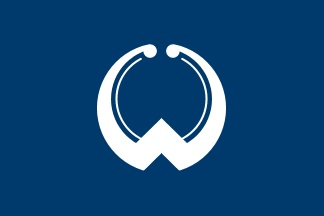 Flag of Oamashirasato Chiba